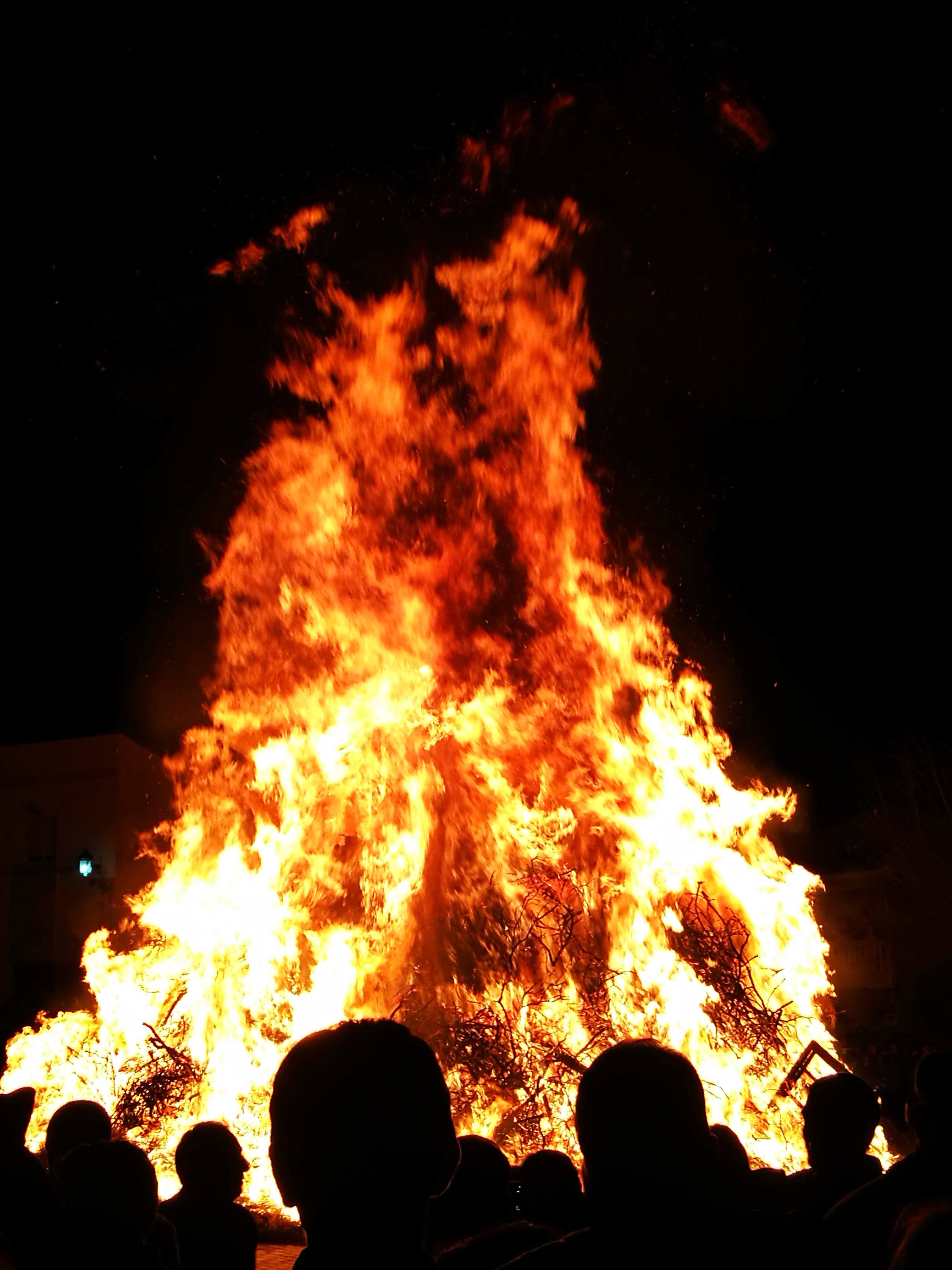 Hoguera fiestas quintos de Albalá